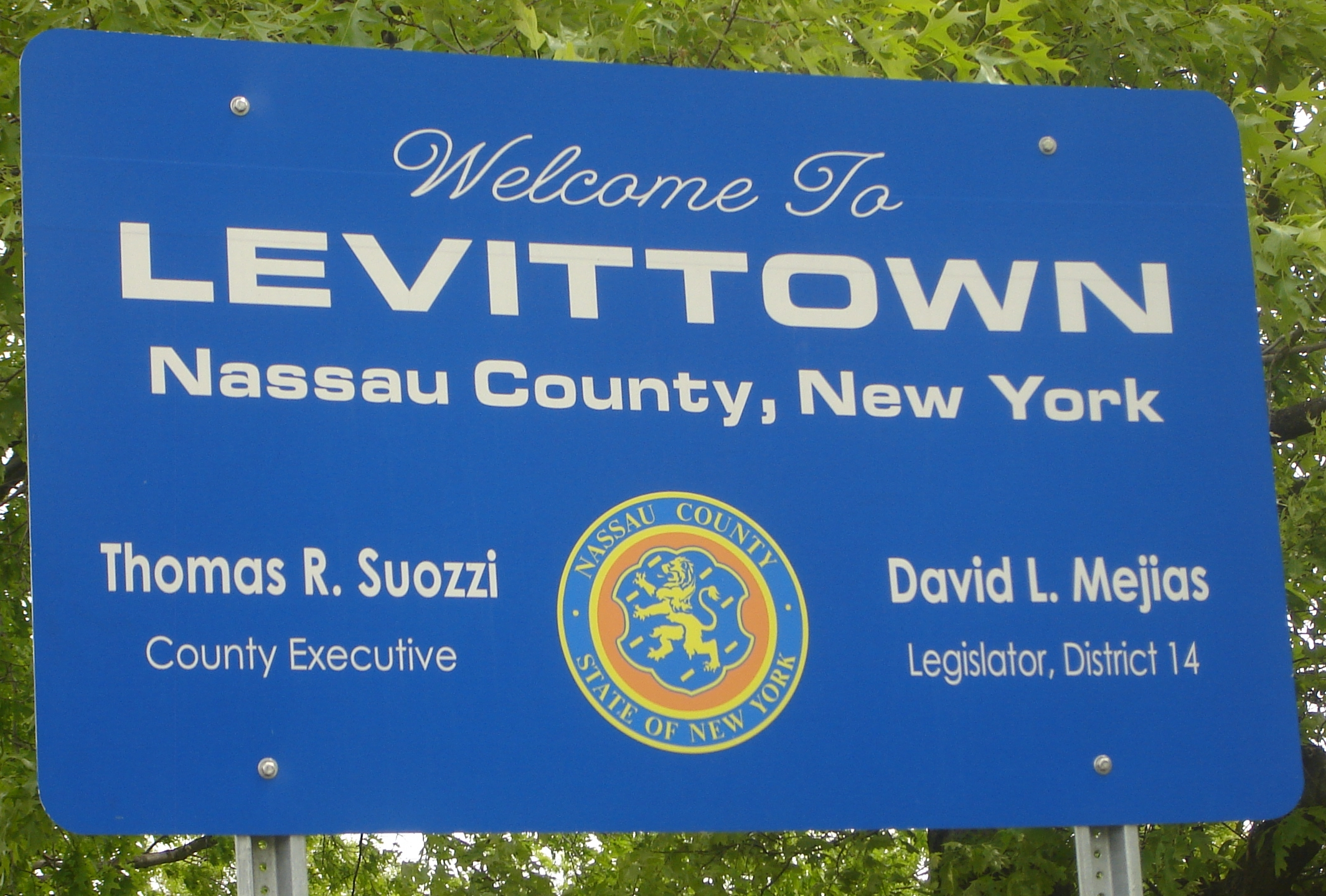 Welcome to Levittown sign on wantagh ave in levittown, NY.